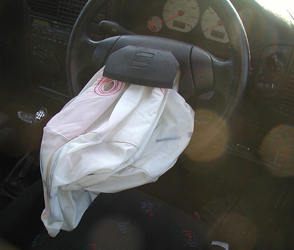 The airbag of a SEAT Ibiza automobile, photographed about an hour after the car had been severely damaged in a road crash. By 0.3 seconds after inflation, the bag is supposed to be empty.[1] The driver crashed into the back of a Mercedes in a queue of traffic he was approaching because he thought the queue was moving. Actually it was stationary and he couldn’t stop! He said that deflation seemed instantaneous, it wasn’t seconds. The interval between the crash and this photo was one hour because the photo was taken after the car had been towed to a garage. The quality is low because the picture had to be taken through the driver's window (which wouldn’t wind down). The driver was not hurt in any way; chassis distortion meant that the car was written off.